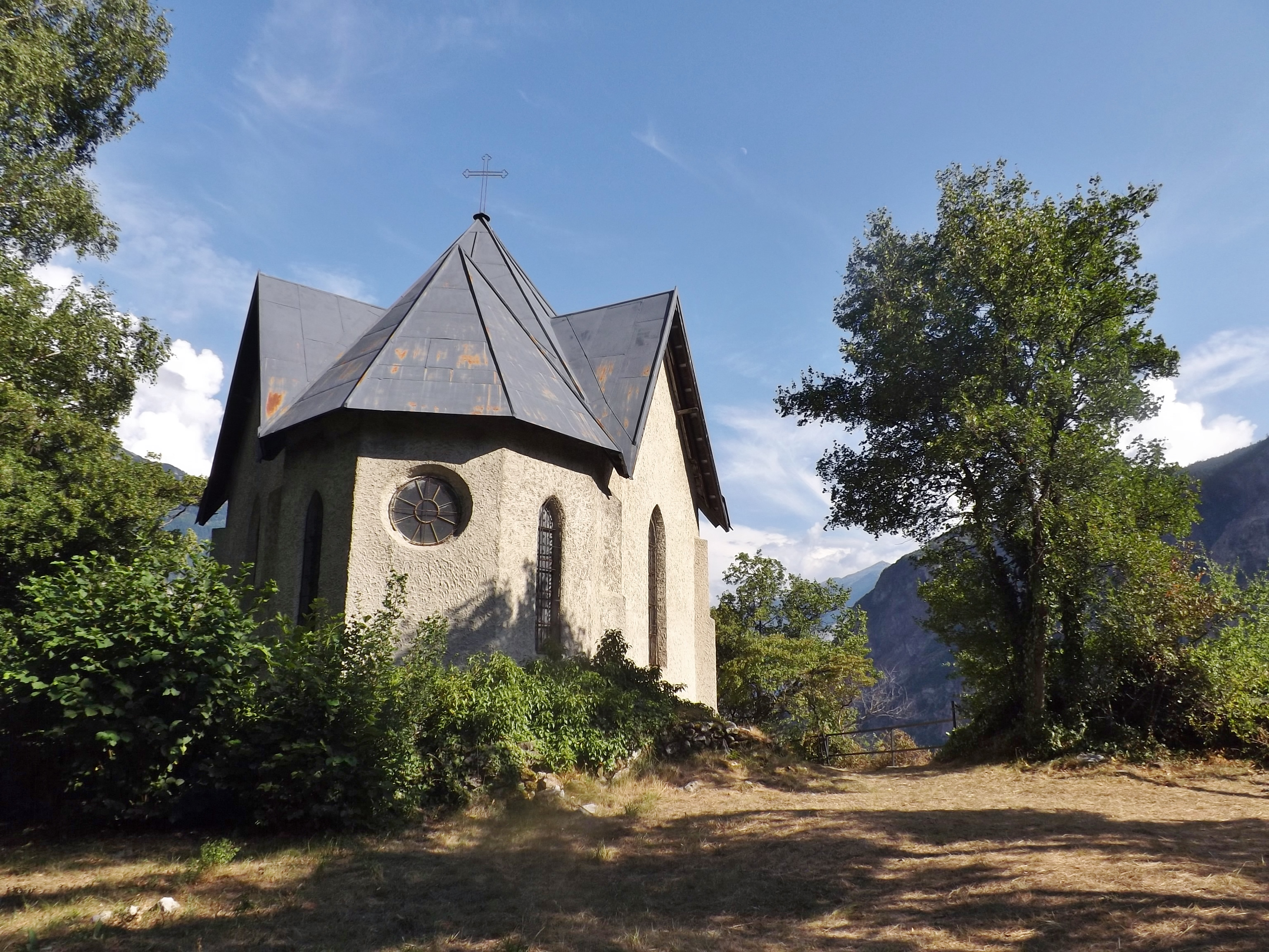 Back sight of the chapelle de la Balme chapel of Montvernier, Savoie, France.